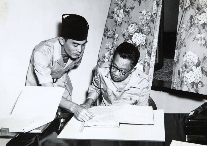 The head of state of the Negara Pasundan with his secretary